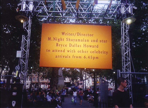 M. Night Shyamalan for a London Premiere (the Village)